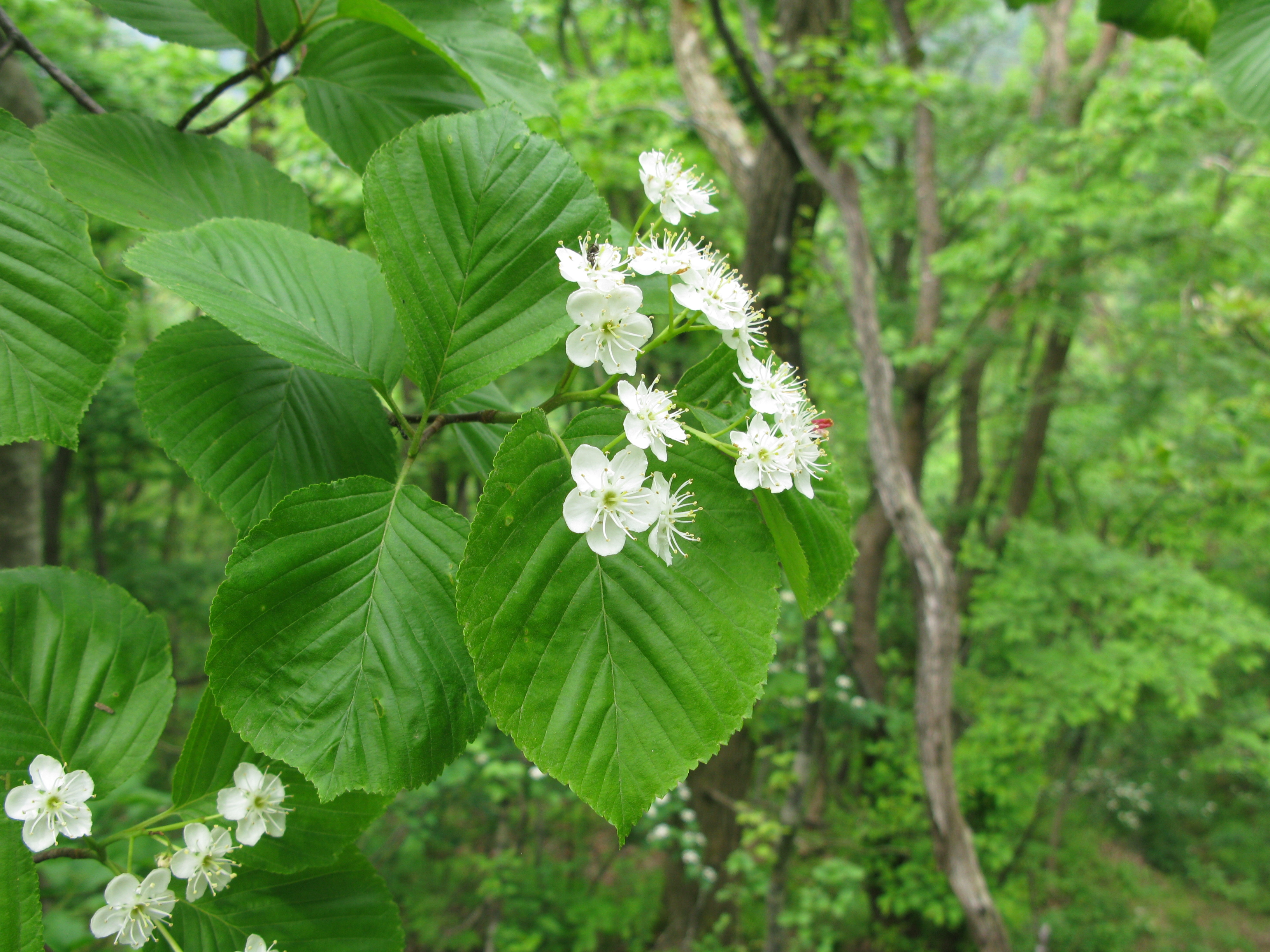 Aria alnifolia, Aizu area, Fukushima pref., Japan